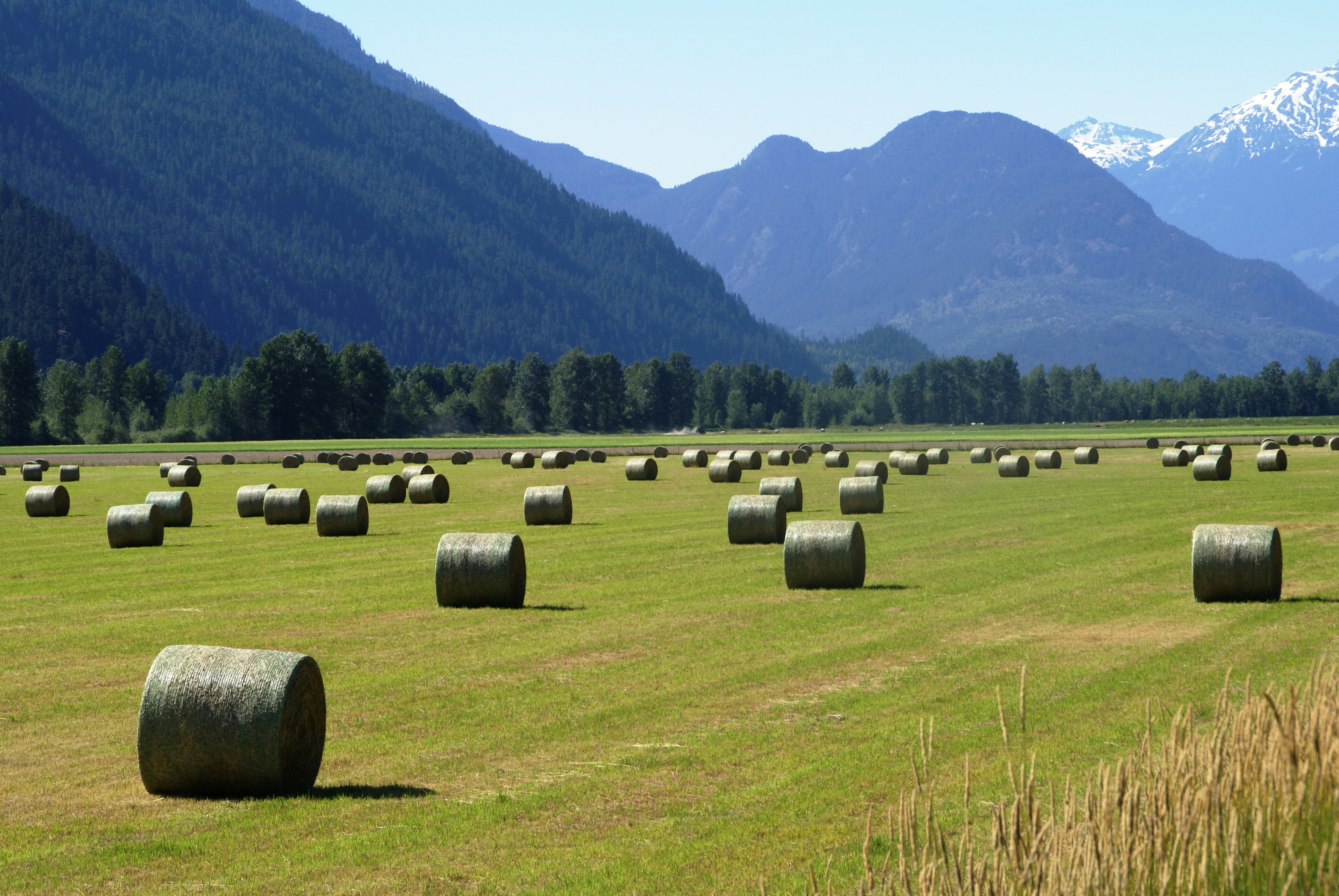 A field of haybales in a sunny field in beautiful Pemberton, BC